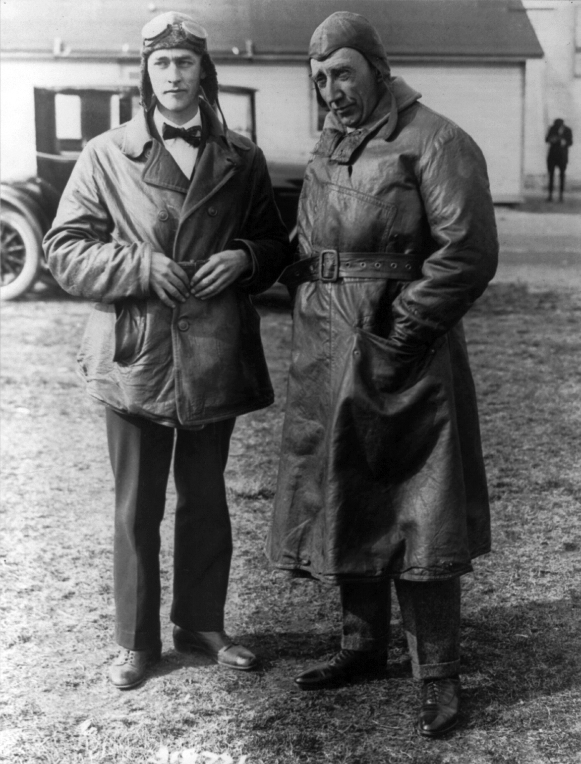 Oskar Omdal (left) with Roald Amundsen, before their attempt to fly to the North Pole.